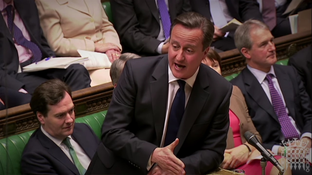 Rt Hon David Cameron MP stands at the government dispatch box in the House of Commons during Prime Minister's Questions (circa 2010-2012).